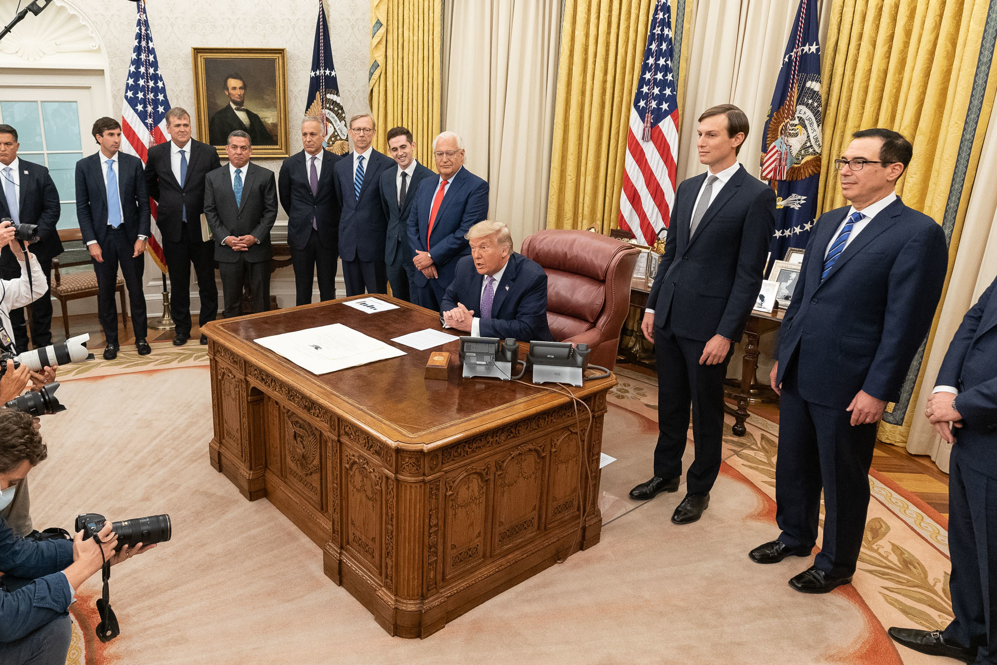 President Donald J. Trump, joined by White House senior staff members, delivers a statement announcing the agreement of full normalization of relations between Israel and the United Arab Emirates Thursday, Aug. 13, 2020, in the Oval Office of the White House. (Official White House Photo by Joyce N. Boghosian)